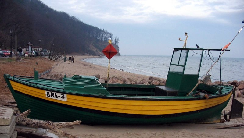 a boat in Gdynia